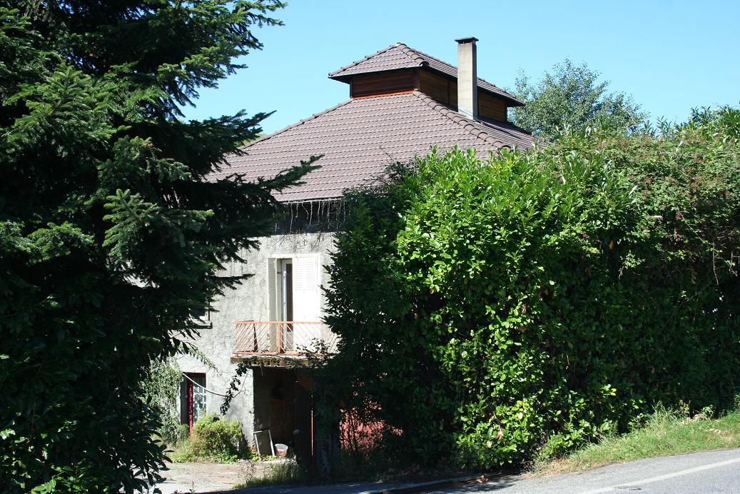 Old hammersmith